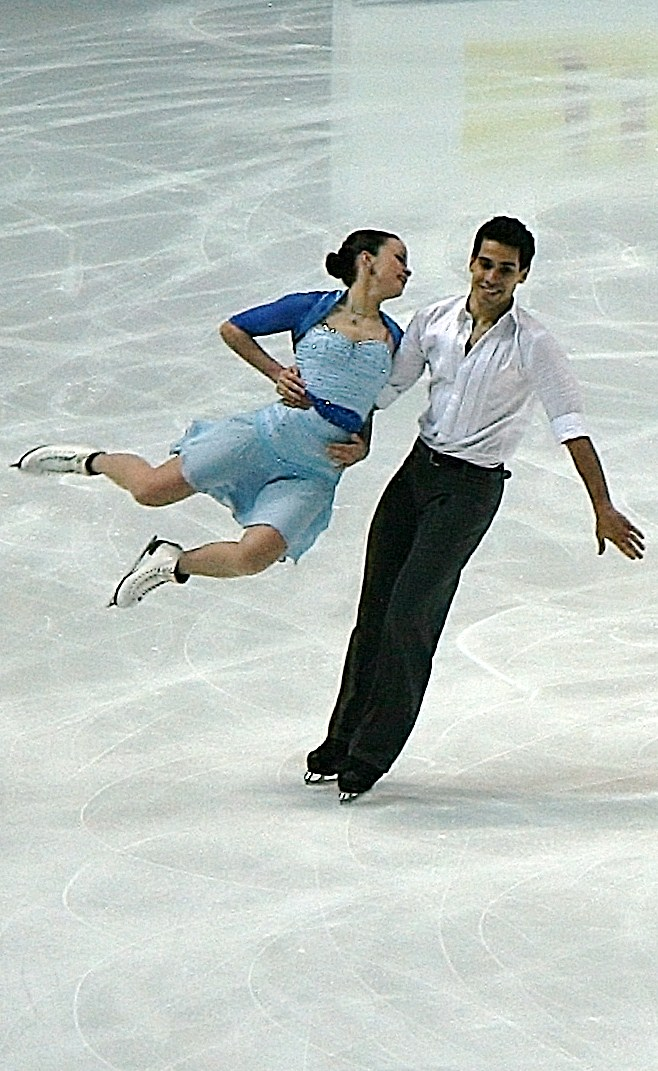 Anna Cappellini and Luca Luca LaNotte at the 2011 World Figure Skating Championships